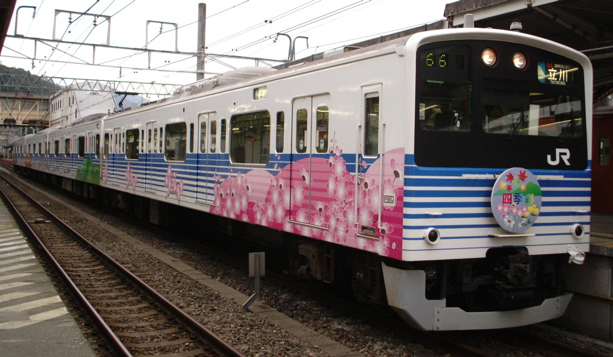 201 series "Shikisai" EMU at Takao Station, 23 June 2007